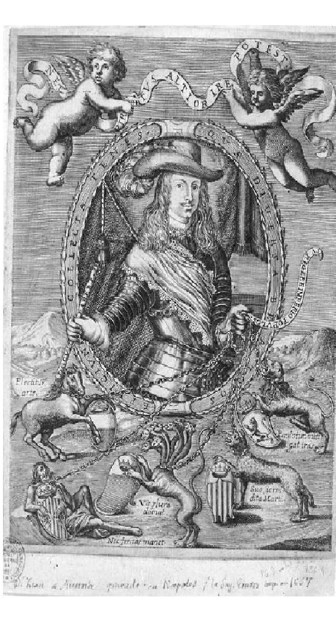 Don Juan José de Austria con las riendas de sus diferentes gobiernos.